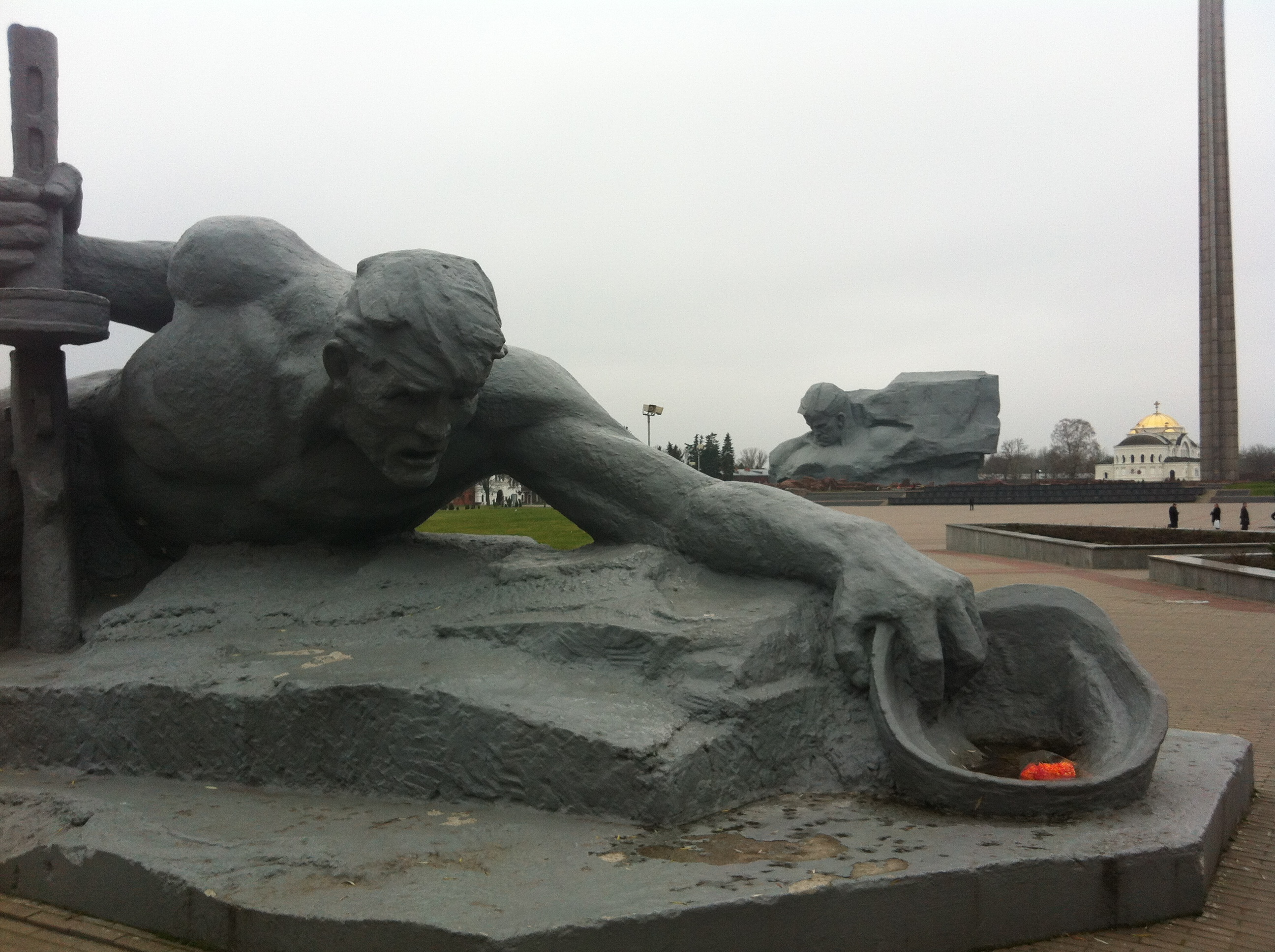 This is the main Island of the fortress